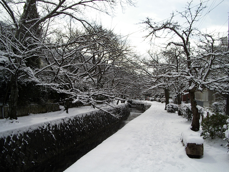 Kyoto philosophers walk, Kyoto, Japan in a snowy day. 雪の日の京都市左京区・哲学の道